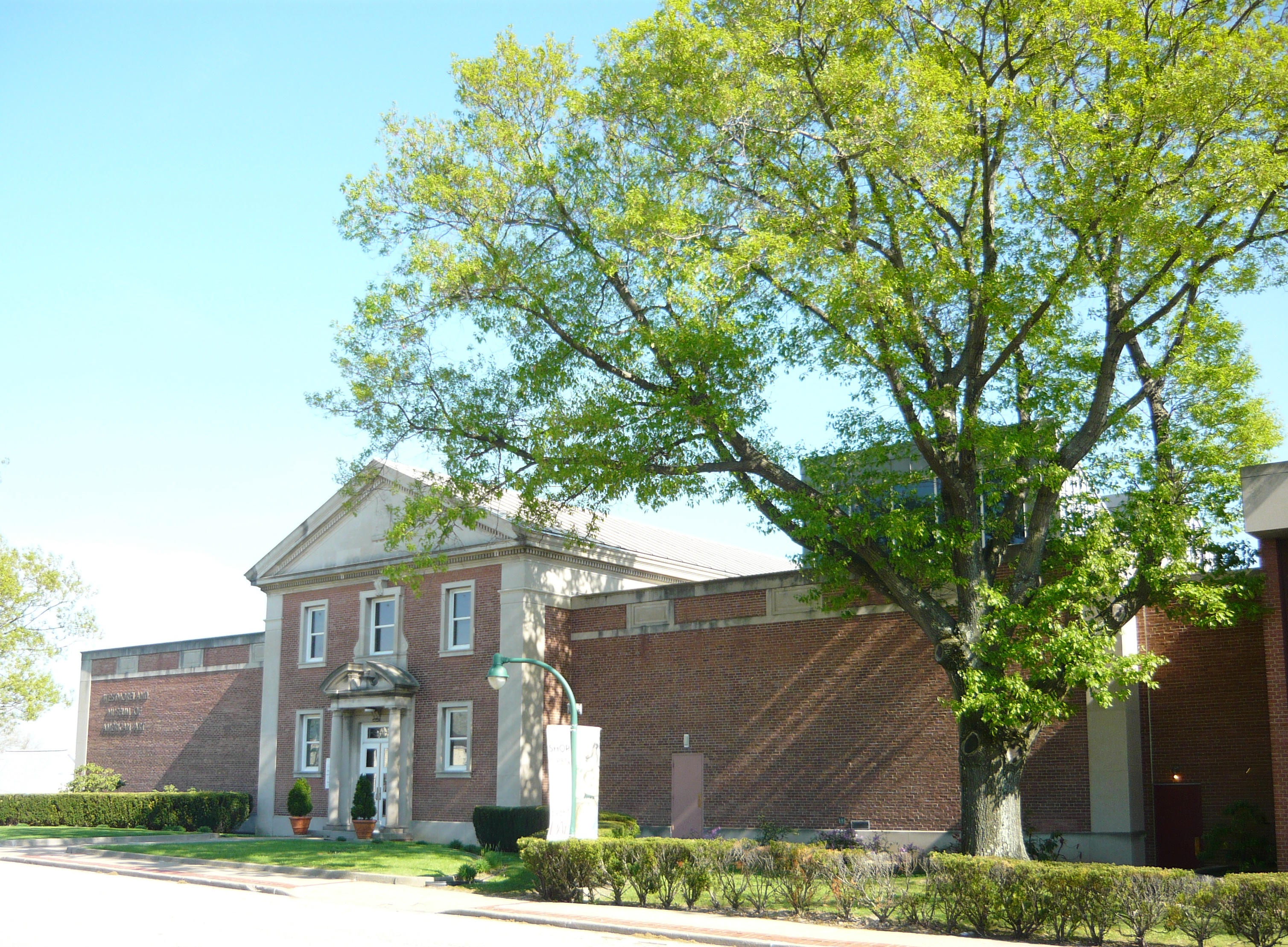 "Westmoreland Museum of American Art", previously "Westmoreland County Museum of Art", also known as "The Westmoreland: The Place for American Art". Building opened 1959. 221 North Main Street (with main entrance facing Park Street), Greensburg, Westmoreland County, Pennsylvania.